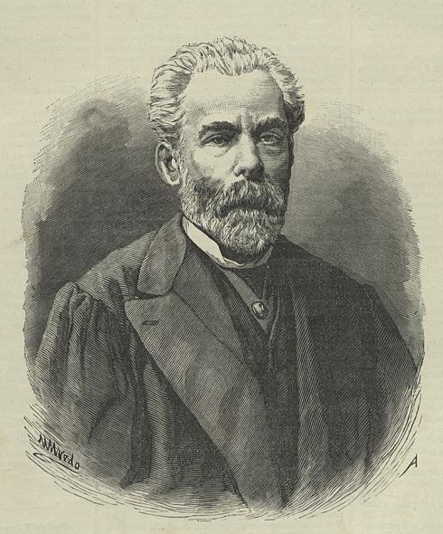 António da Silva Túlio (1818-1884), Portuguese writer and historian